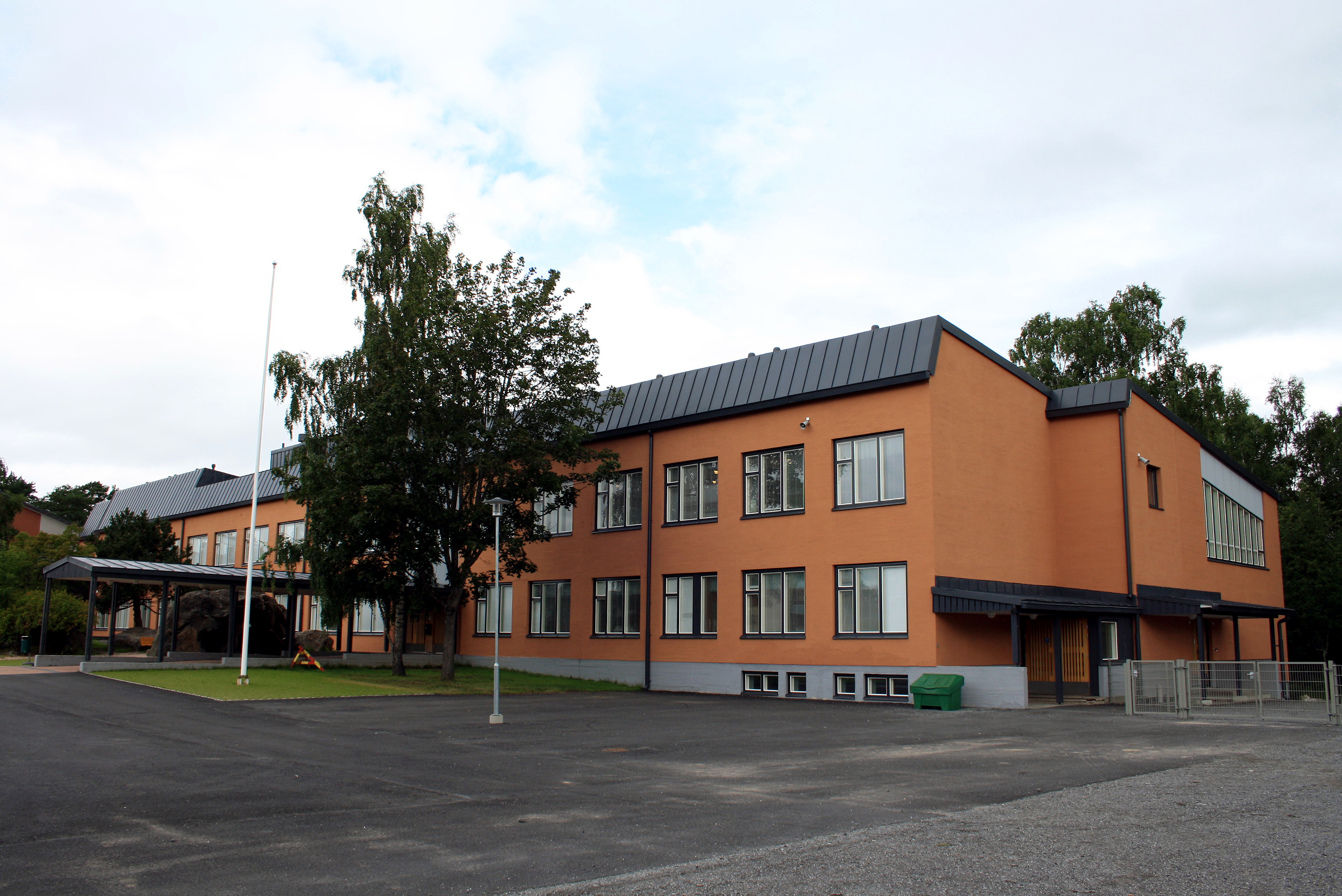 Hollihaka school in Kokkola, Finland.